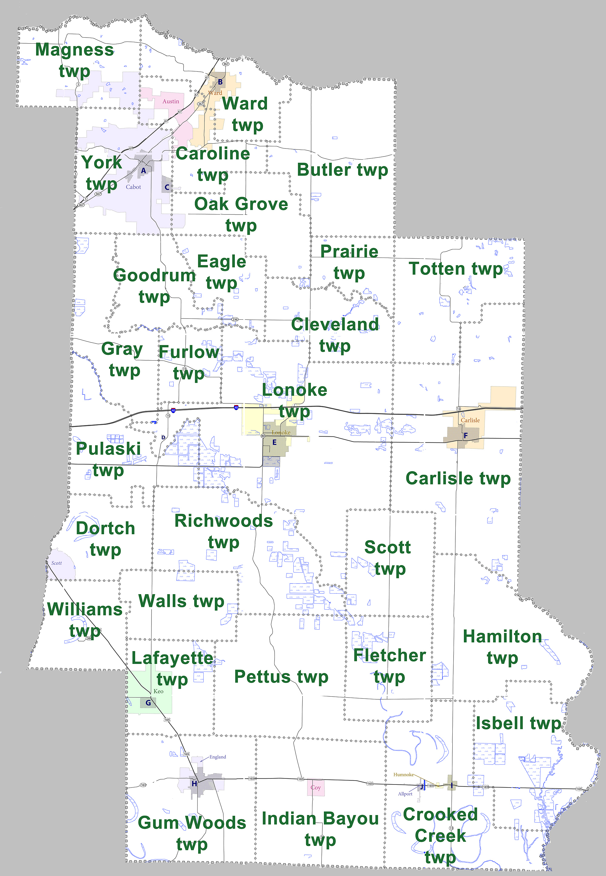 Large map showing townships in Lonoke County, Arkansas. Modified from US census map (for 2010 census) for Lonoke County, Arkansas